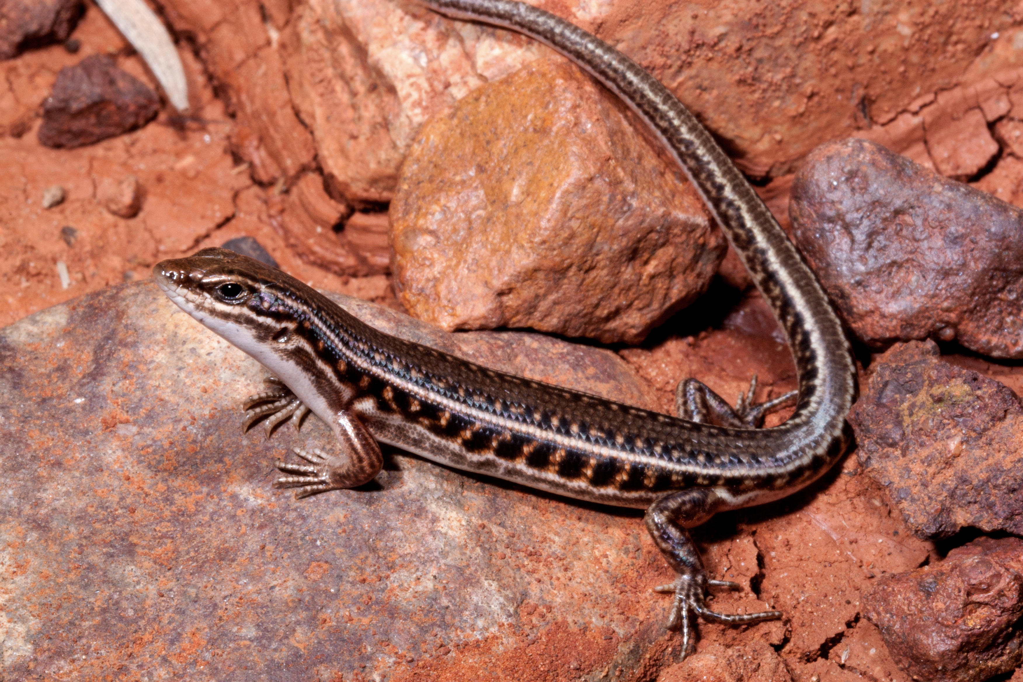 Copyright (C) Steve K Wilson, Location: Congie Station, Eromanga South West Queensland Australia